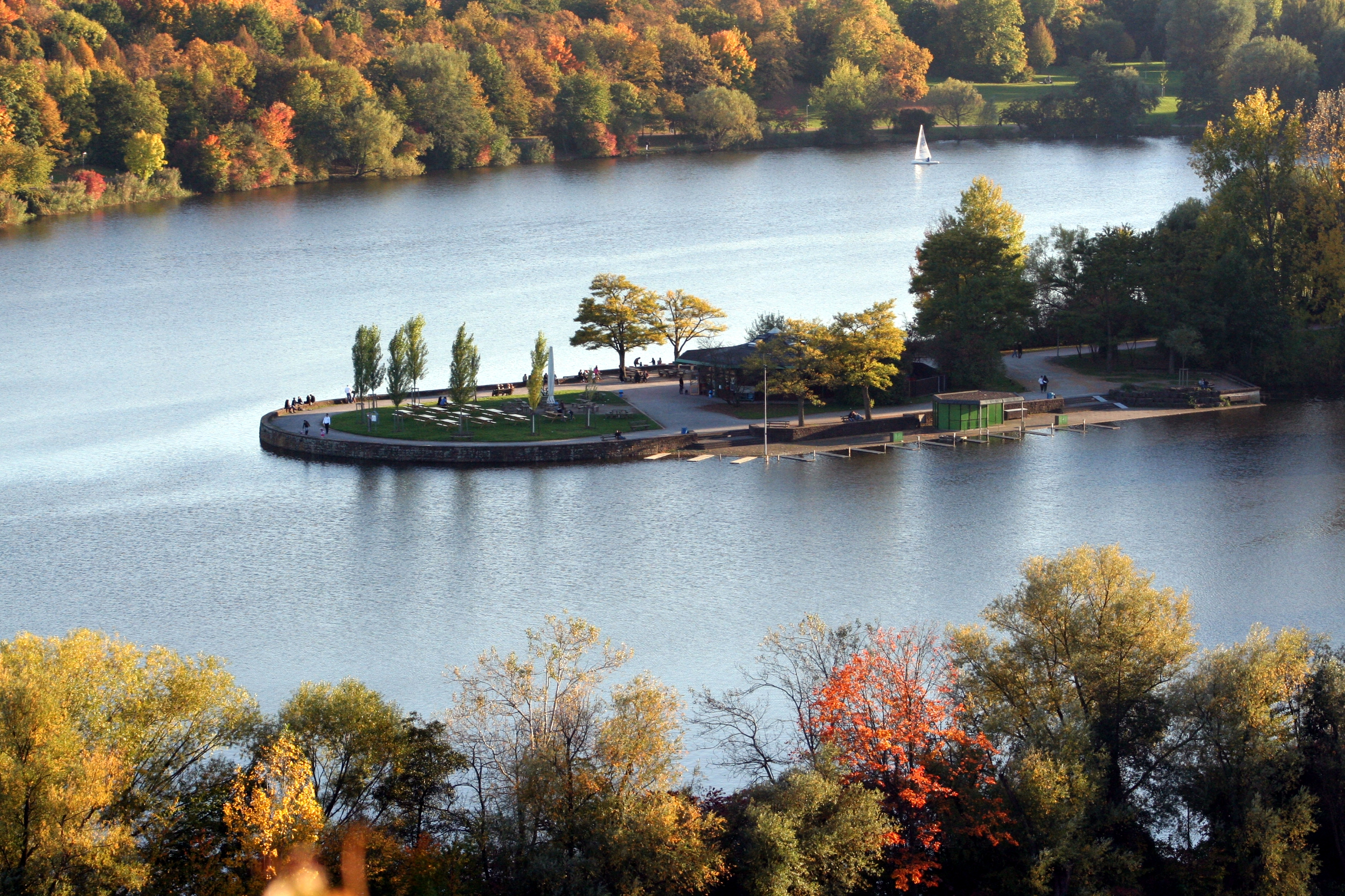 Lake Max-Eyth at Stuttgart-Hofen, Germany